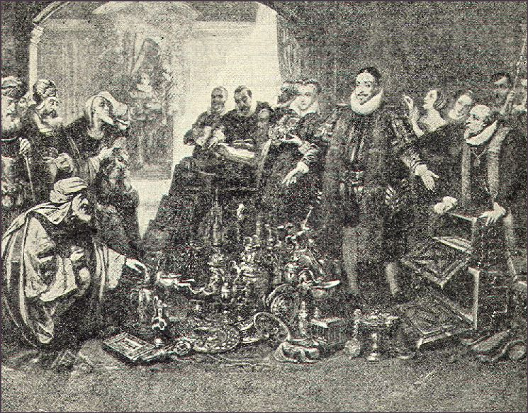 Evan Mac Tappan (1854–1930), European Hero Stories (1909), William of Orange pledges his jewels for the defense of his country